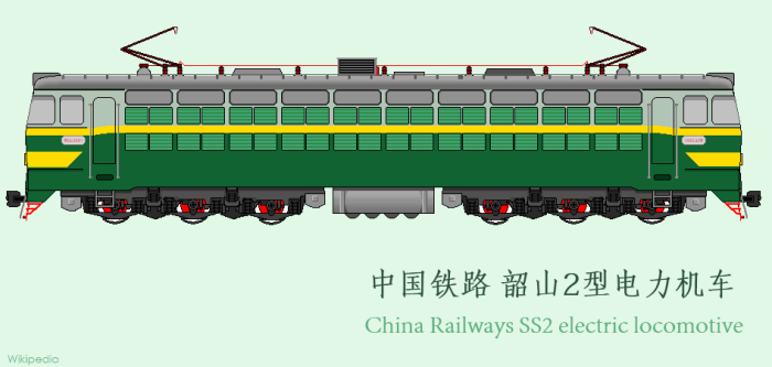 Drawing of a China Railways SS2 electric locomotive (Computer graphic)